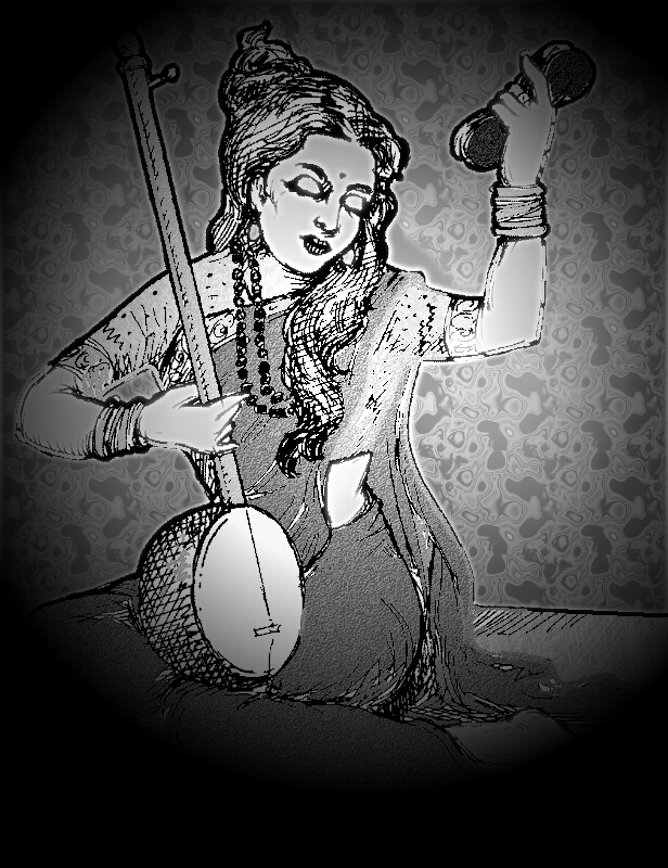 Meera Bai (1498-1547), Hindu mystical poetess, philosopher and sage. Her compositions are popular throughout India.